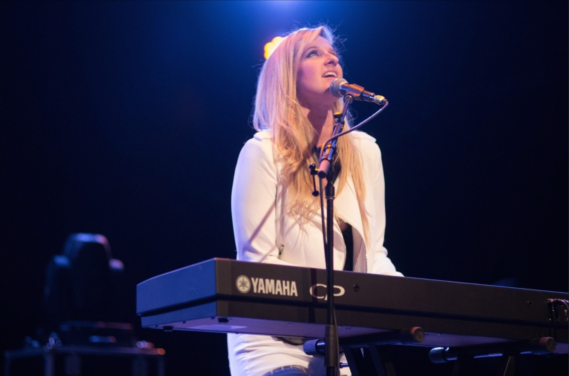 Live Shot of Danielle Taylor